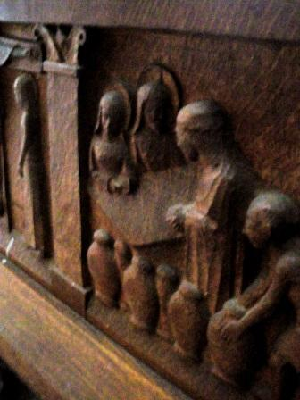 An Alan Durst relief on his "The Annunciation" in Winchester Cathedral-shows the turning of water into wine.